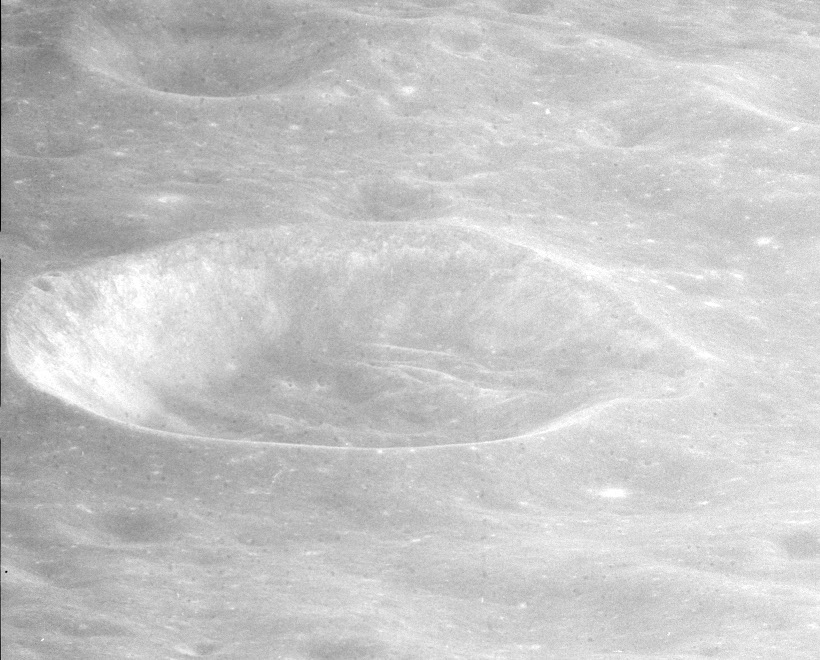 Oblique view of Pannekoek T crater, 22.5 km diameter, on the far side of the moon.